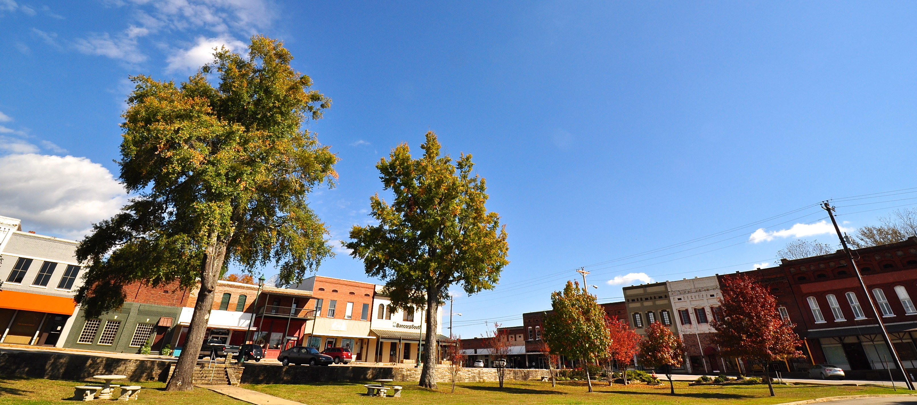 Buildings along Front Street (Left) and Fulton Street (Right). This historic district, located at Iuka, MS, was listed on the National Register of Historic Places in 1991.